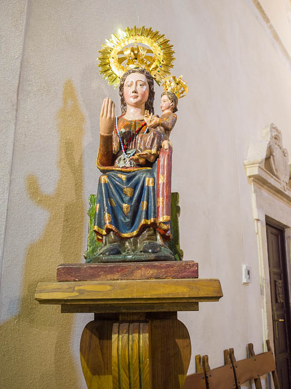 Virgen con niño de estilo románico en la Iglesia de San Andrés apostol.